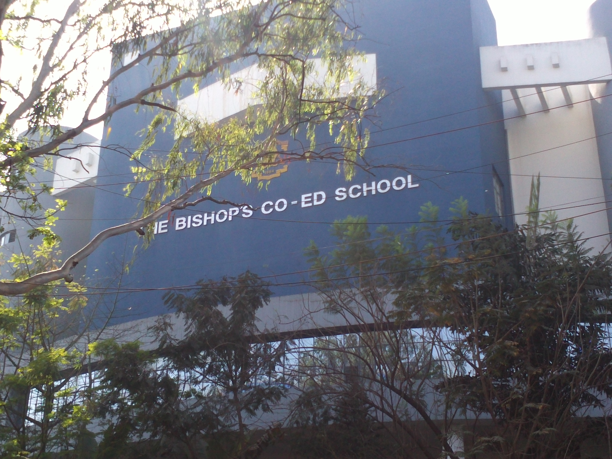 The Bishop's School, Kalyaninagar